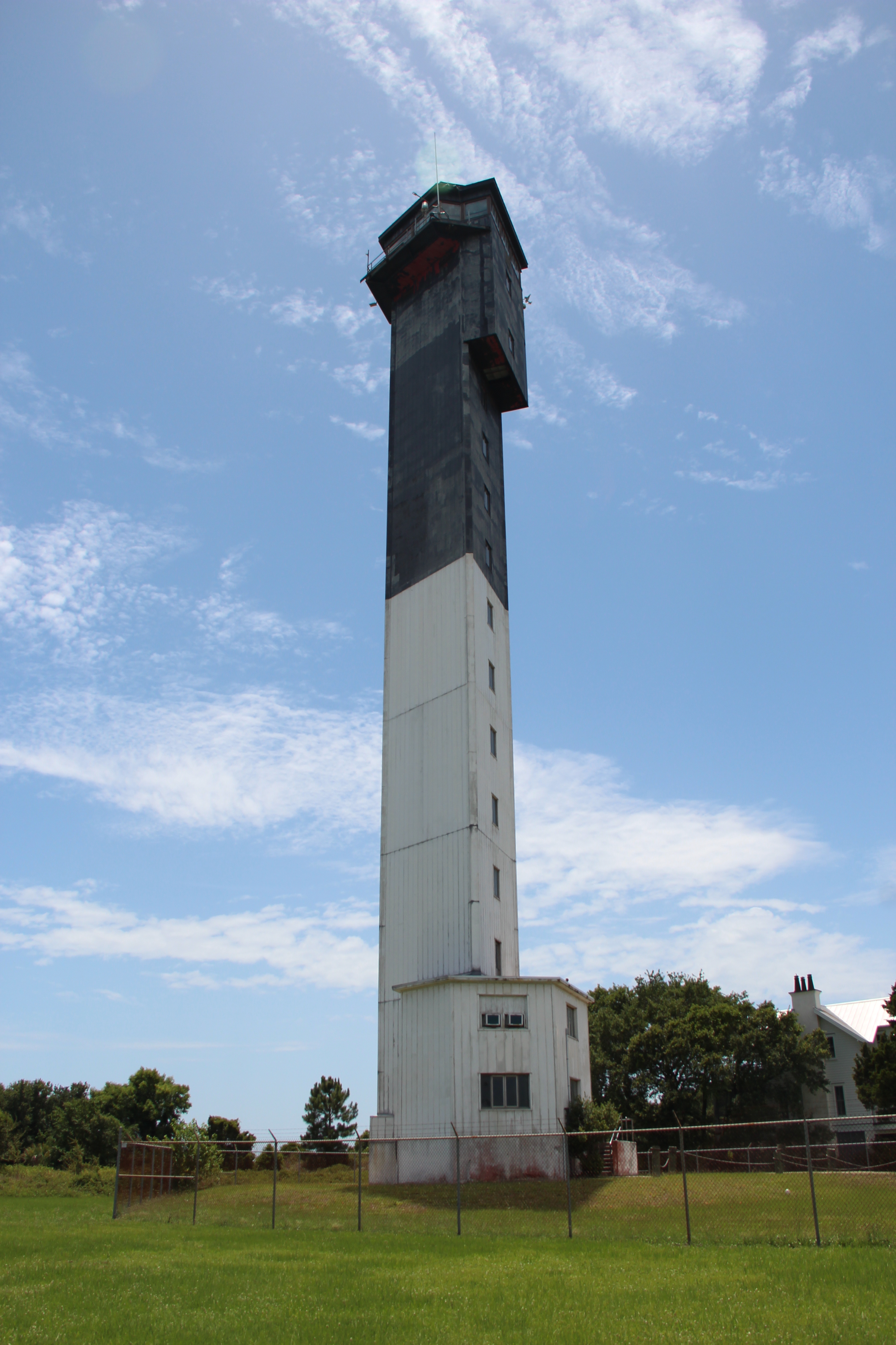 Charleston Light